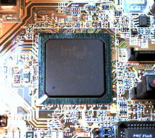 Schipset_Sul_South_Bridge (motherboard ASUS P4P800-E / Intel)